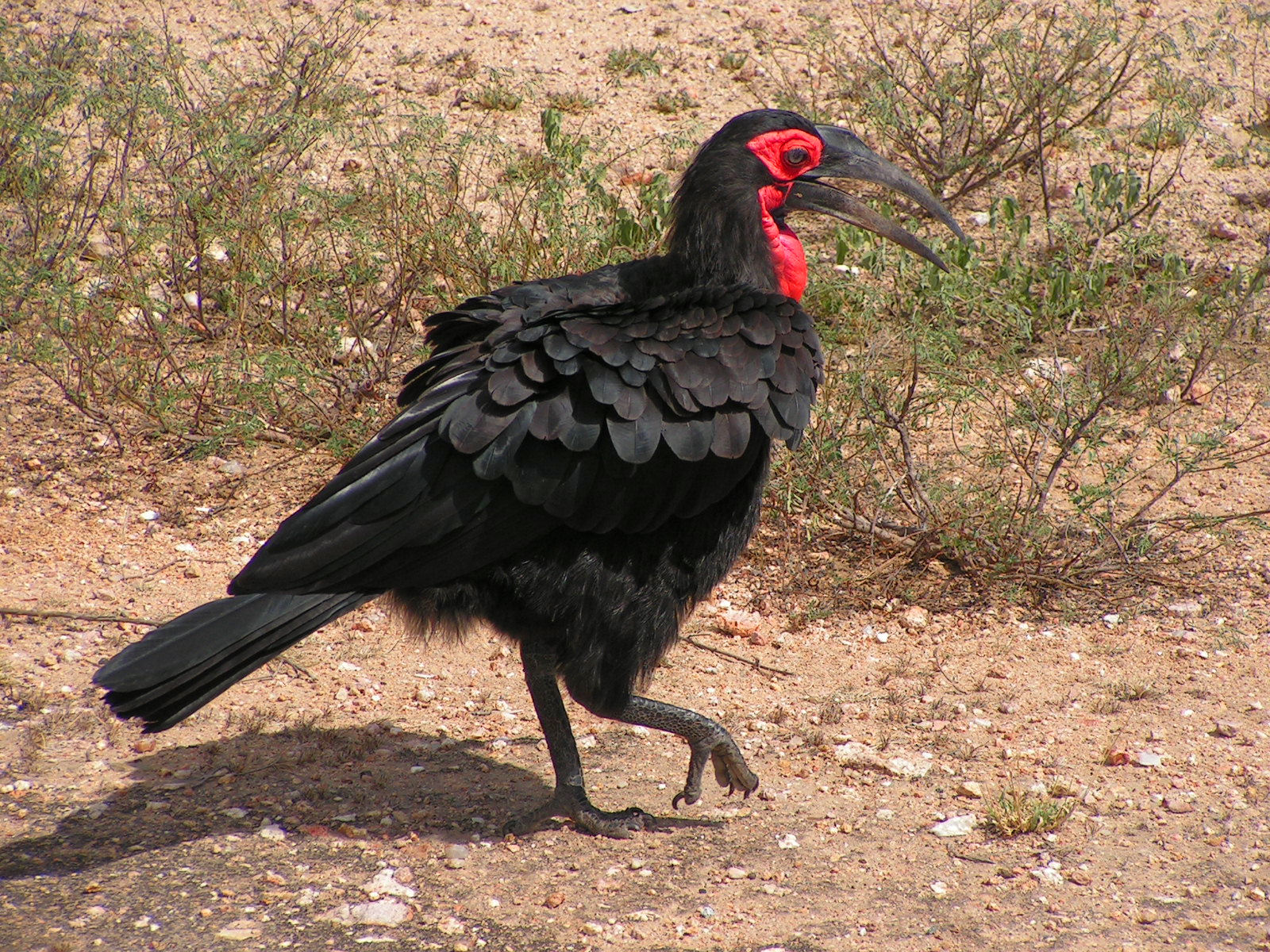 Southern Ground Hornbill (Bucorvus leadbeateri), Kruger Park, South Africa